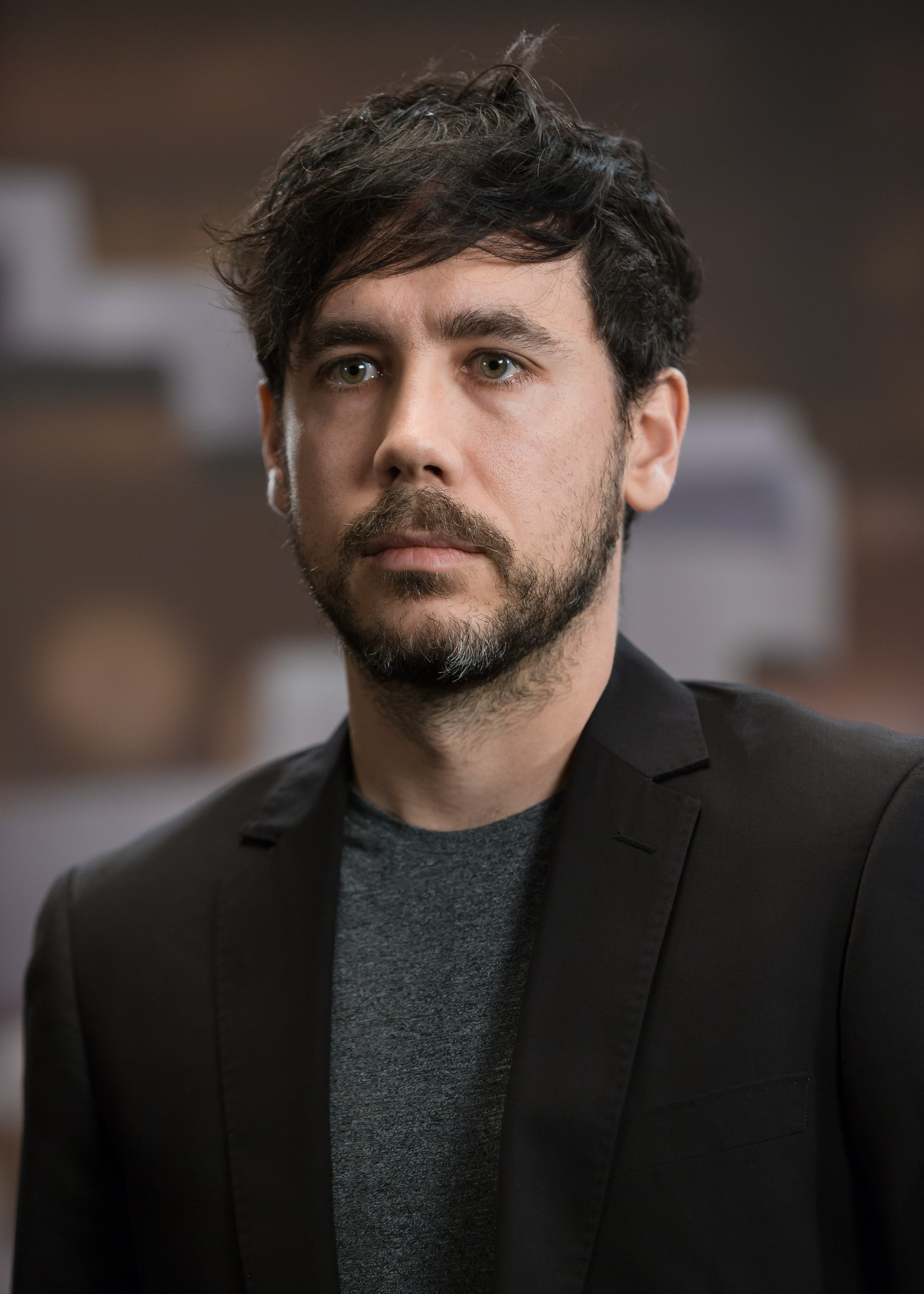 Klemens Hufnagl, cinematography of Brothers of the Night (orig.: Brüder der Nacht), at the Austrian Film Awards 2017 (Rathaus, Vienna,Austria).